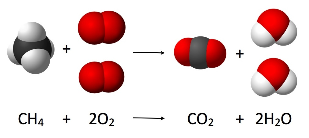 Visual of how the law of conservation of mass means that there must be same number of atoms of each element for the reactants and the products.